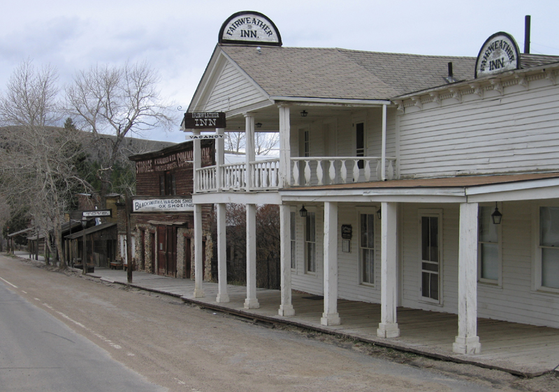 Photograph of Virginia City ghost town buildings. Taken on April 16, 2006 by Parodygm 03:04, 28 March 2007 (UTC)